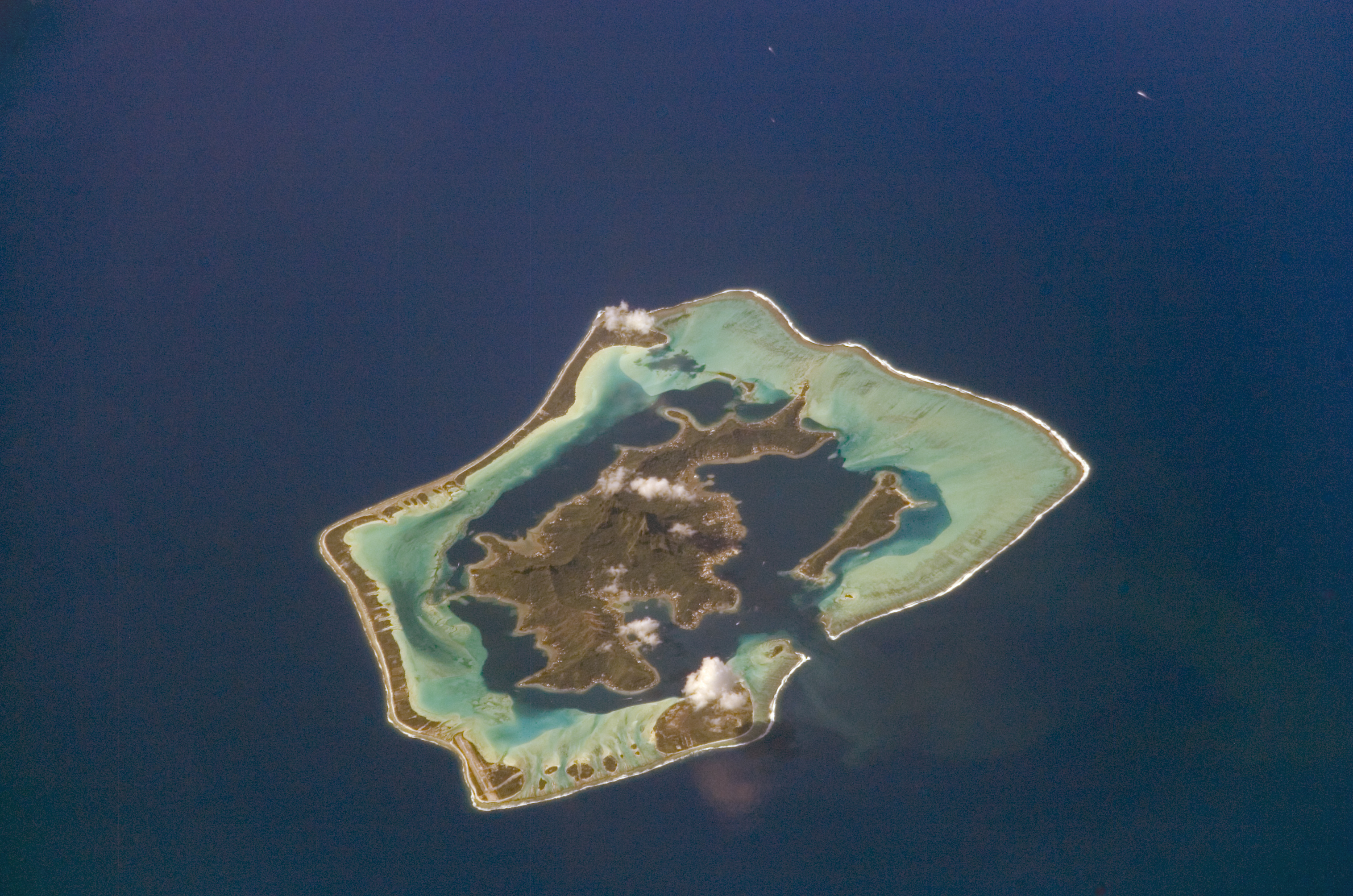 NASA astronaut image of Bora Bora, Gesellschaftsinseln, French Polynesia